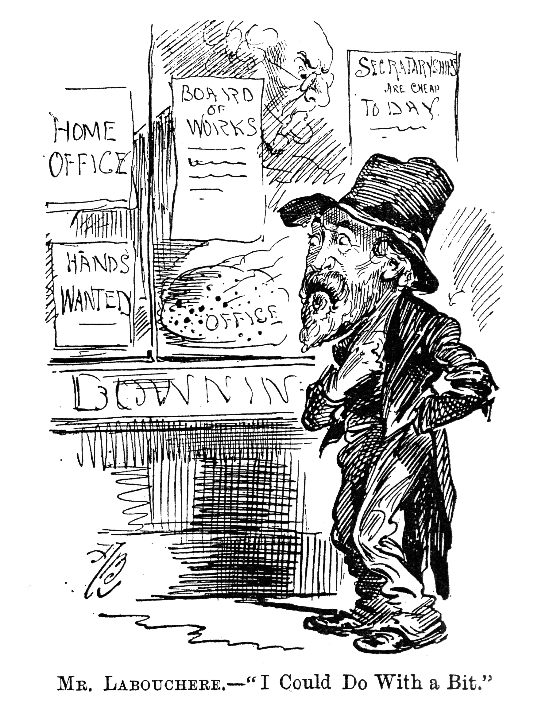 Labouchère expected to get an office when the Liberals returned to power in 1892, but the Queen prevented Gladstone from giving him one.